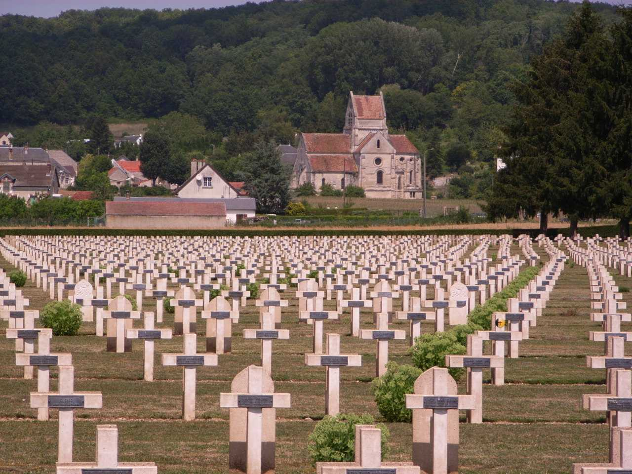 Soupir N° I National Cemetery near the Chemin des Dames ridge with graves of soldiers who fought in the Second Battle of Aisne in 1917. Crosses mark the graves of French soldiers, and white tombstones with Arabic script mark the graves of French colonial "Senegalese" (North and West African) soldiers. (The German Cemetery at Soupir is adjacent to Soupir N° I to the west, and Soupir N° 2 National Cemetery is immediately across the street, to the south.) Note: Soupir (Aisne) is located about 140 km northeast of Paris, near Soissons.